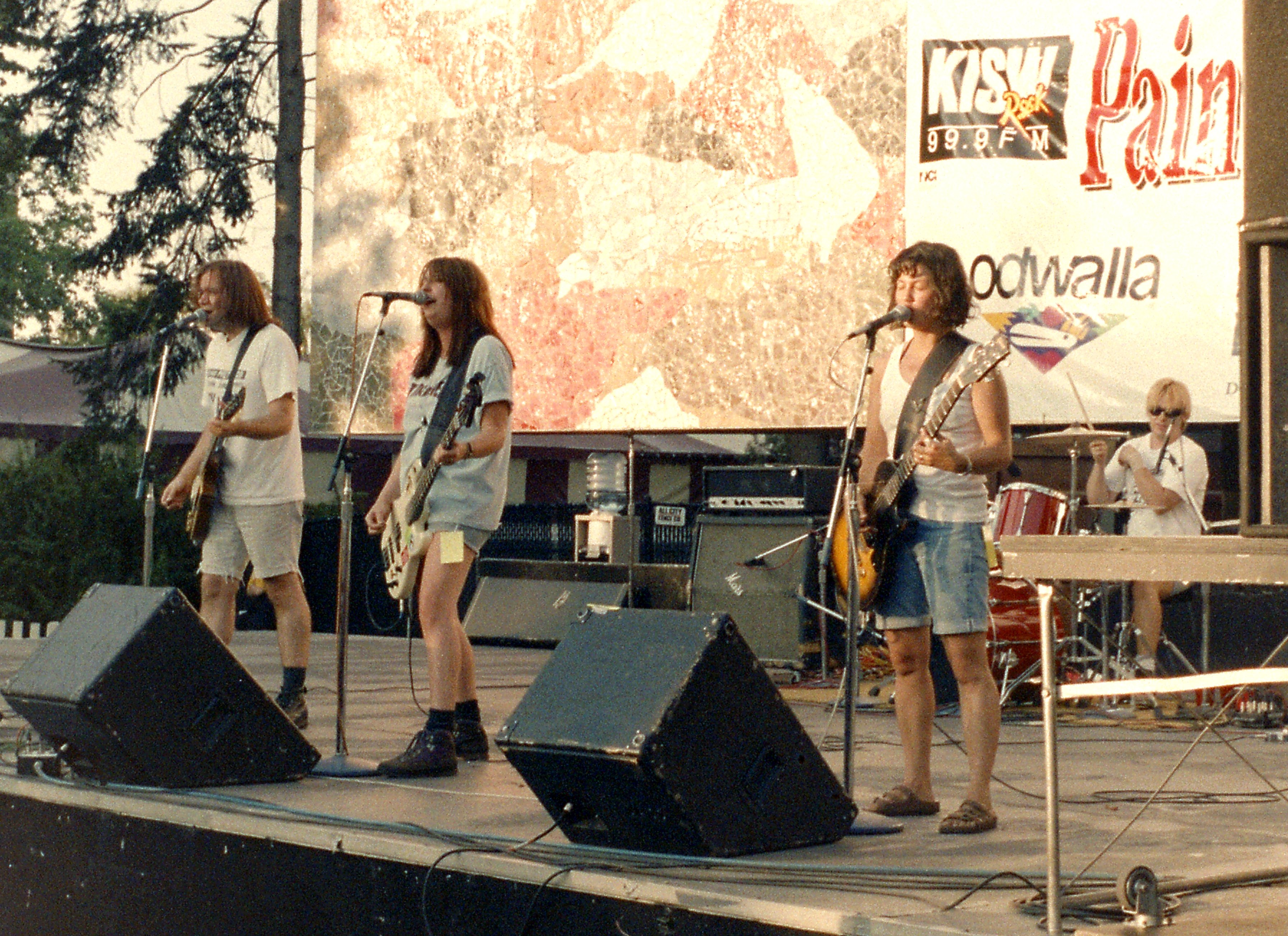 The Fastbacks play a Pain in the Grass concert, Mural Amphitheater, Seattle Center, Seattle, Washington, USA. The Fastbacks, headlined. Left to right: Kurt Bloch, Kim Warnick, Lulu Gargiulo, Mike Musberger.